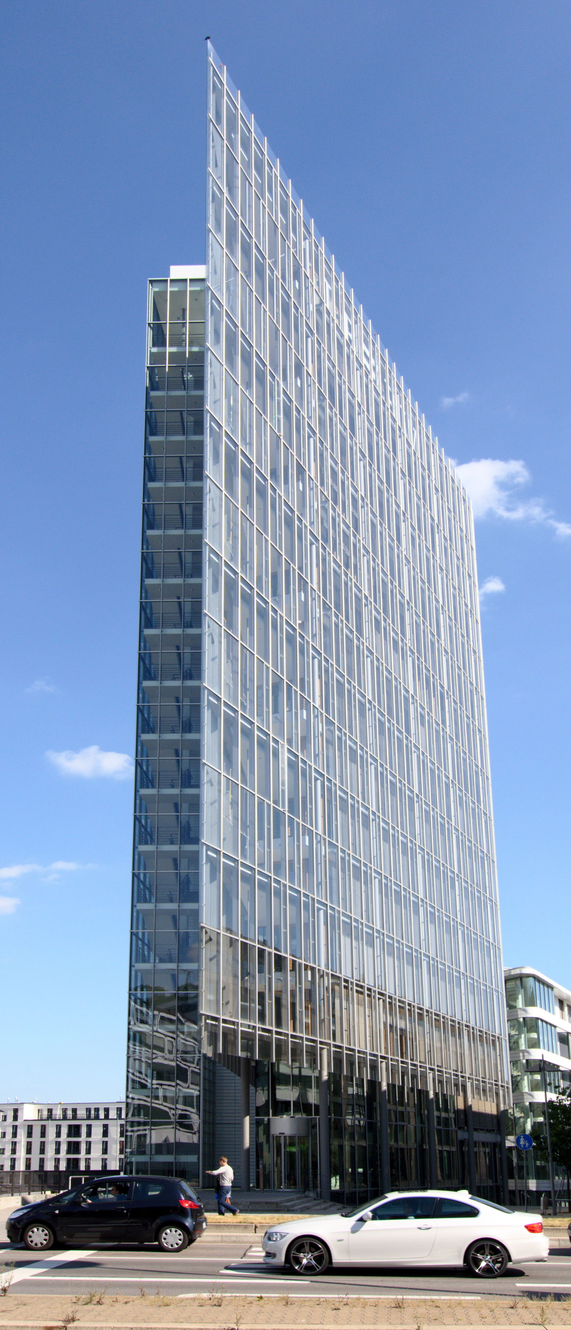 One of the Buildings of the Landesbank Baden-Württemberg in Stuttgart